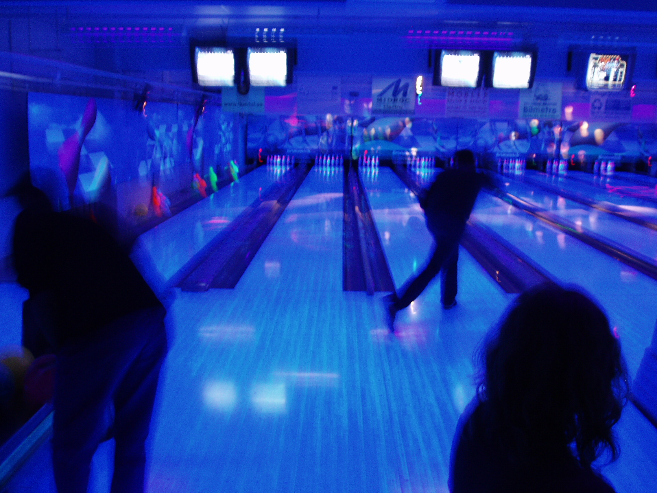 Disco Bowling.